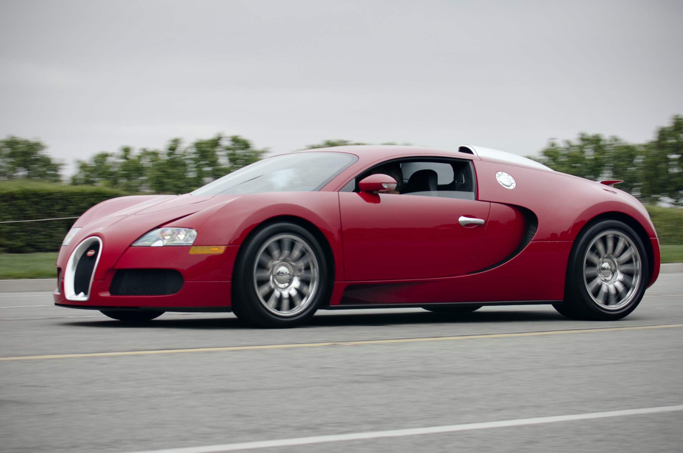 Red Bugatti Veyron leaving Cars and Coffee